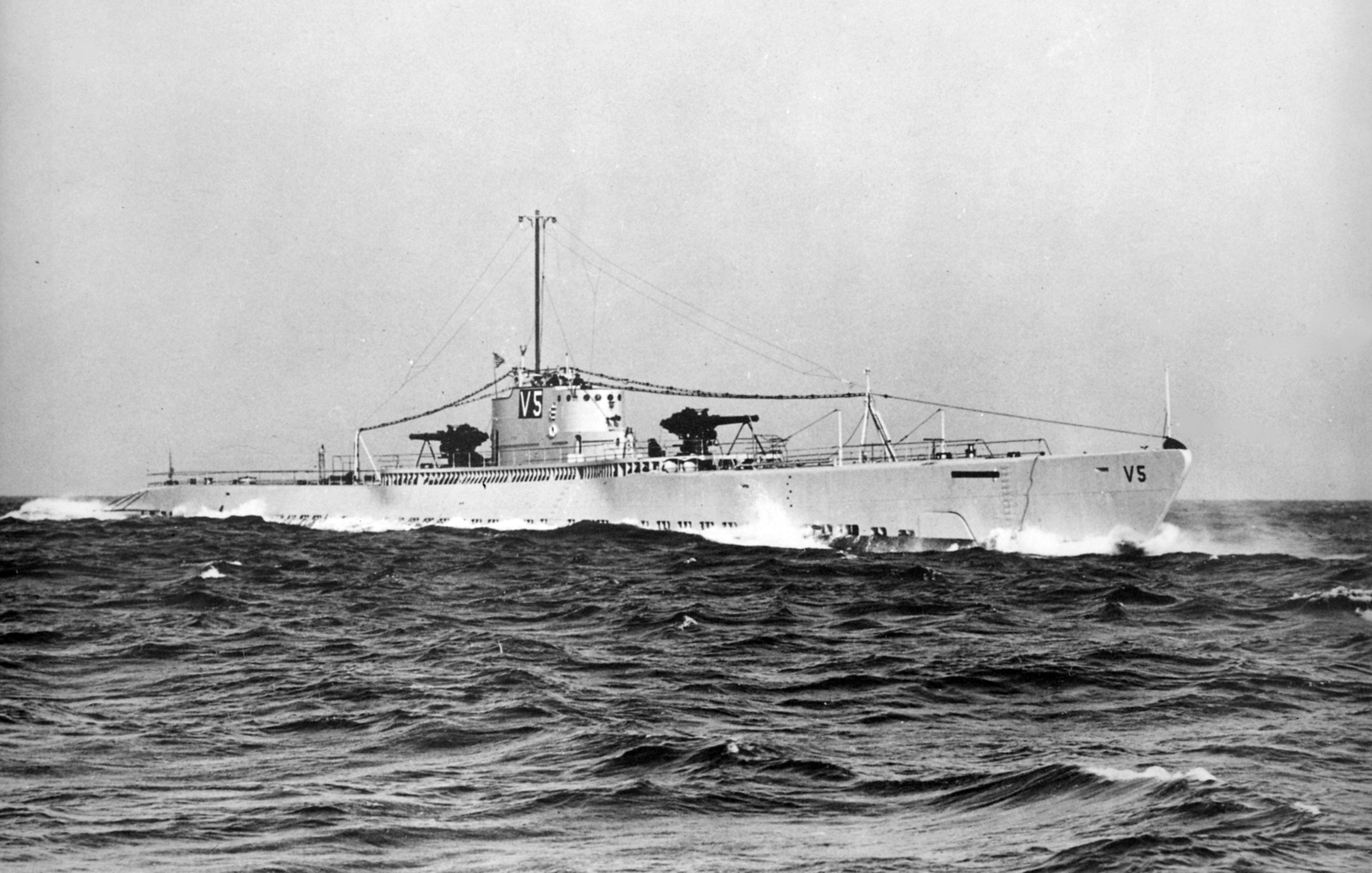 The U.S. Navy submarine V5, renamed USS Narwhal (SS-167), underway in 1931.